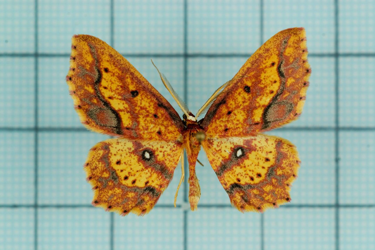 Synegiodes histrionaria ornata (Bastelberger, 1909) 黑頷花姬尺蛾 鞍1:P.42,Pl.11-9 female TaiBnet .tw/chi/taibnet_species_detail.php?name... Synegiodes histrionarius ornatus (Bastelberger, 1909)